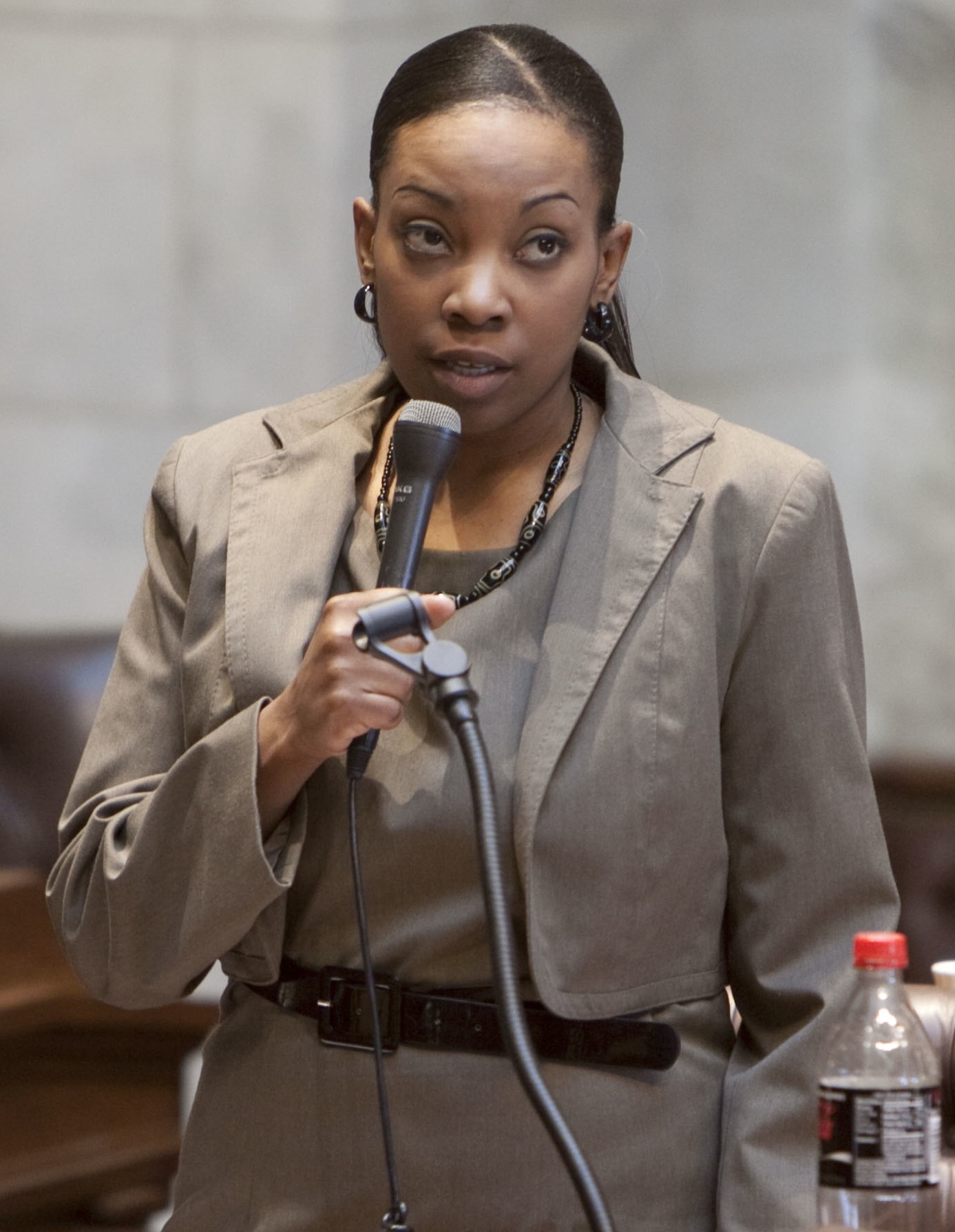 Former Wisconsin State Assemblywoman Tamara Grigsby